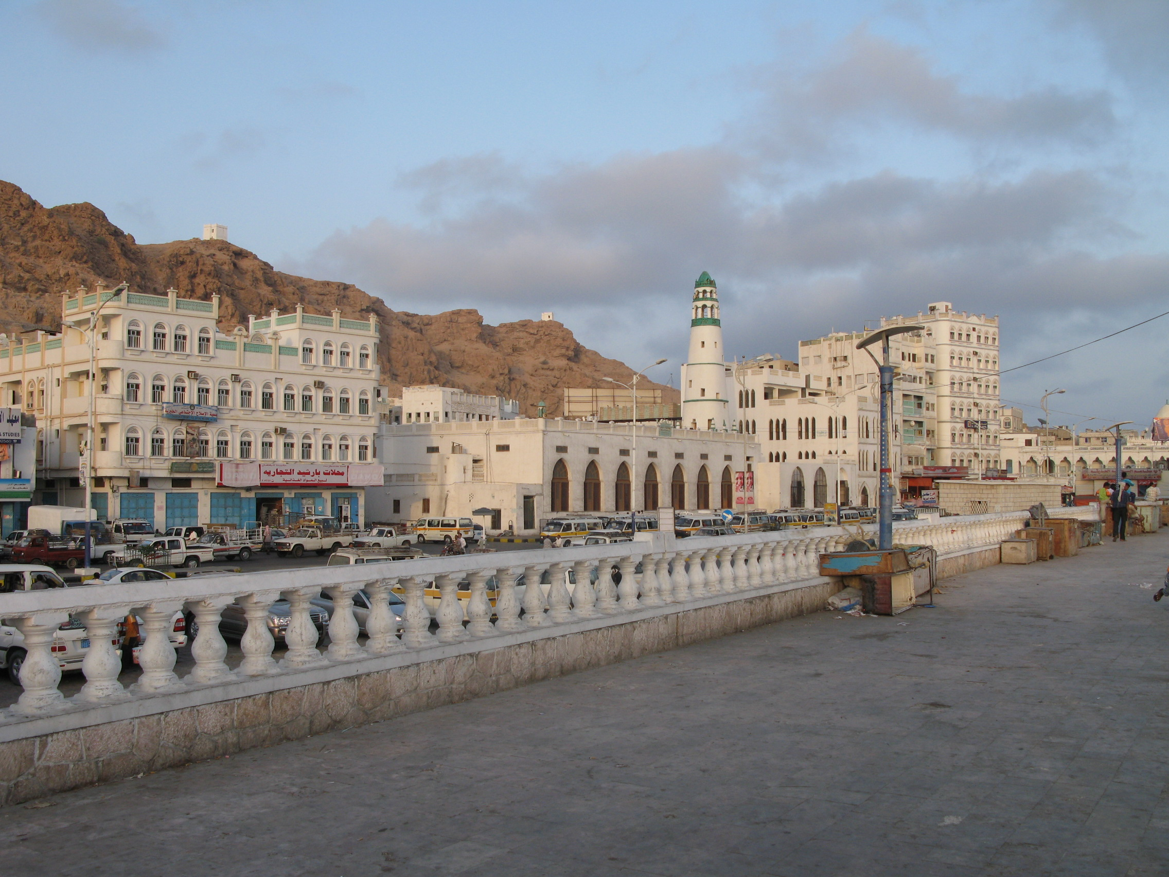 Al Mukalla, Yemen. Al Rawda Moaque Minaret in the center of the photo.